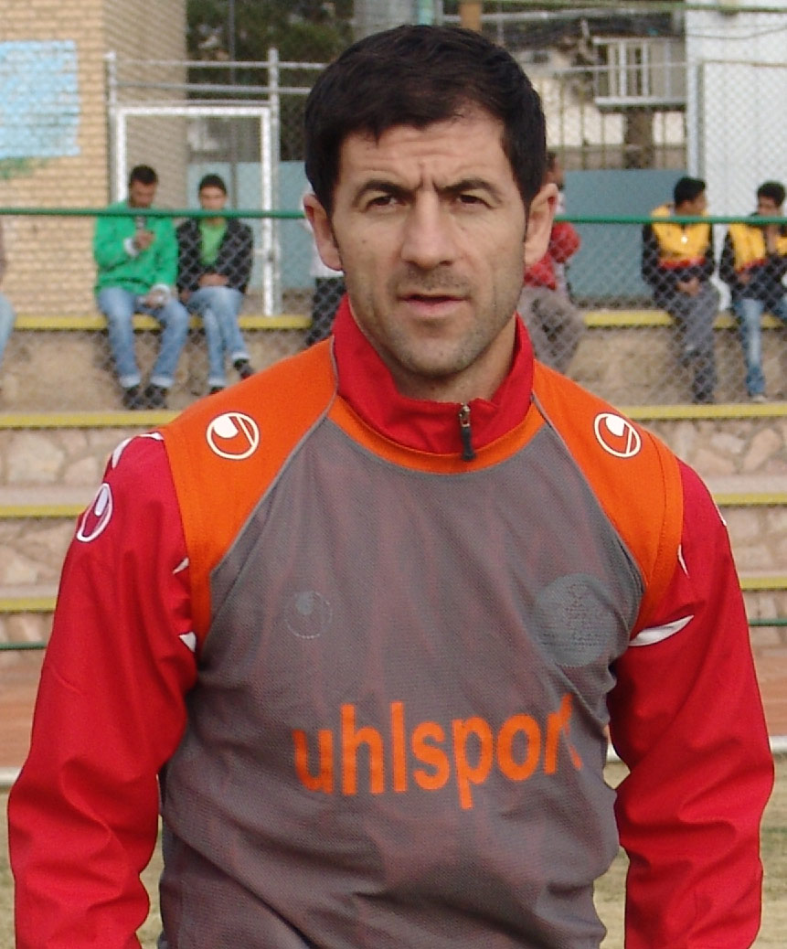 Karim Bagheri in Semnan